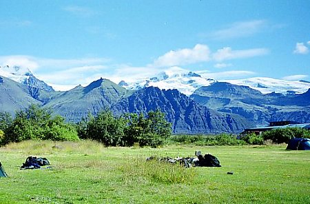 Skaftafell National Park, Iceland. From .